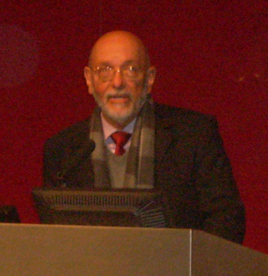 Mexican archaeologist Eduardo Matos Moctezuma giving a talk at the British Museum, London, to accompany the Moctezuma: Last Aztec Ruler exhibition. September 2009.